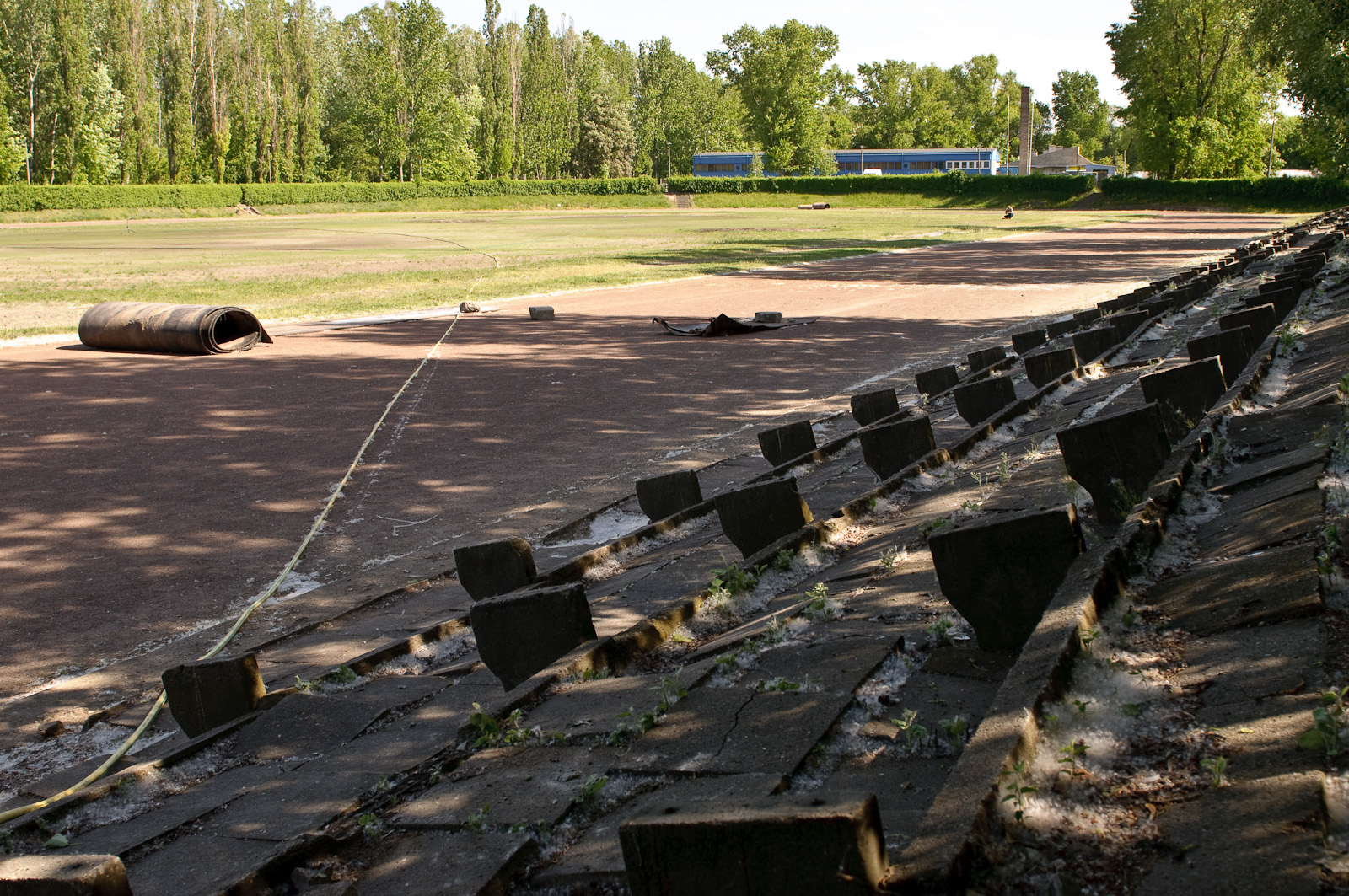 Track & Field area at the Spojnia Sports Club